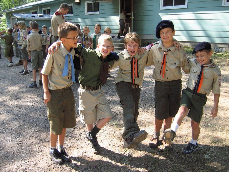 Polish Cub Scout Camp (Związek Harcerstwa Polskiego Poza Granicami Kraju), Crivitz